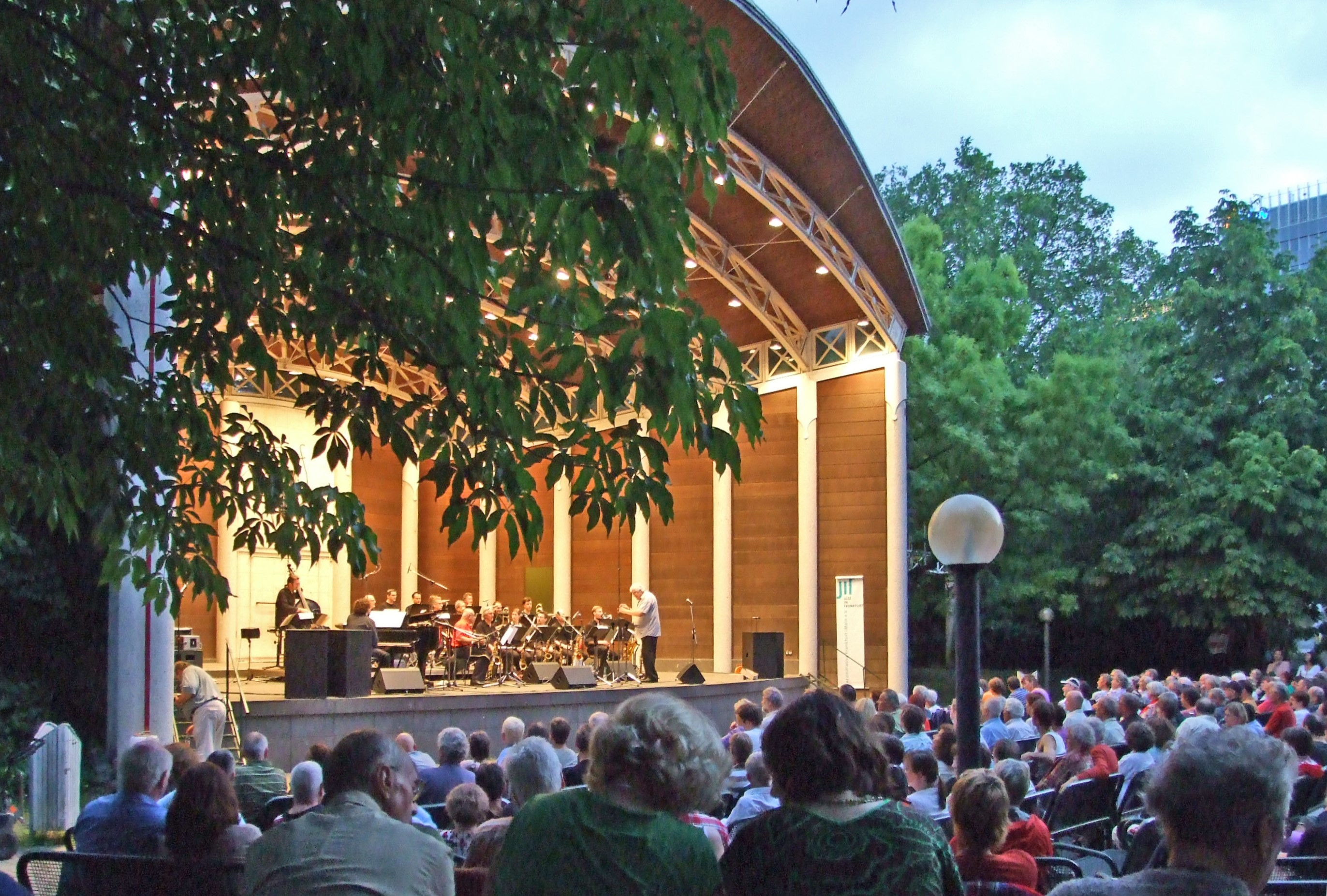 Wilson de Oliveira and "Frankfurt-Jazz-Big Band" with Enrique Telleria (bandoneon), at "Jazz im Palmengarten", Frankfurt am Main